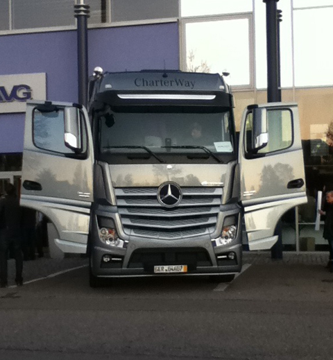 The second generation Mercedes-Benz Actros 1845 BigSpace Blue Effiency Power during its presentation to the broad public on 12 Nov 2011 (local dealer). The photo above shows the BigSpace cab (interior height: 1.99m) which is the second largest cabin available for the New Actros. The vehicle is equipped with a 12.8 litres Common rail diesel engine (series OM 471) rated at 330 kW (443 bhp/449 hp) and approx. 1,700 lb-ft (2,300Nm) of torque.